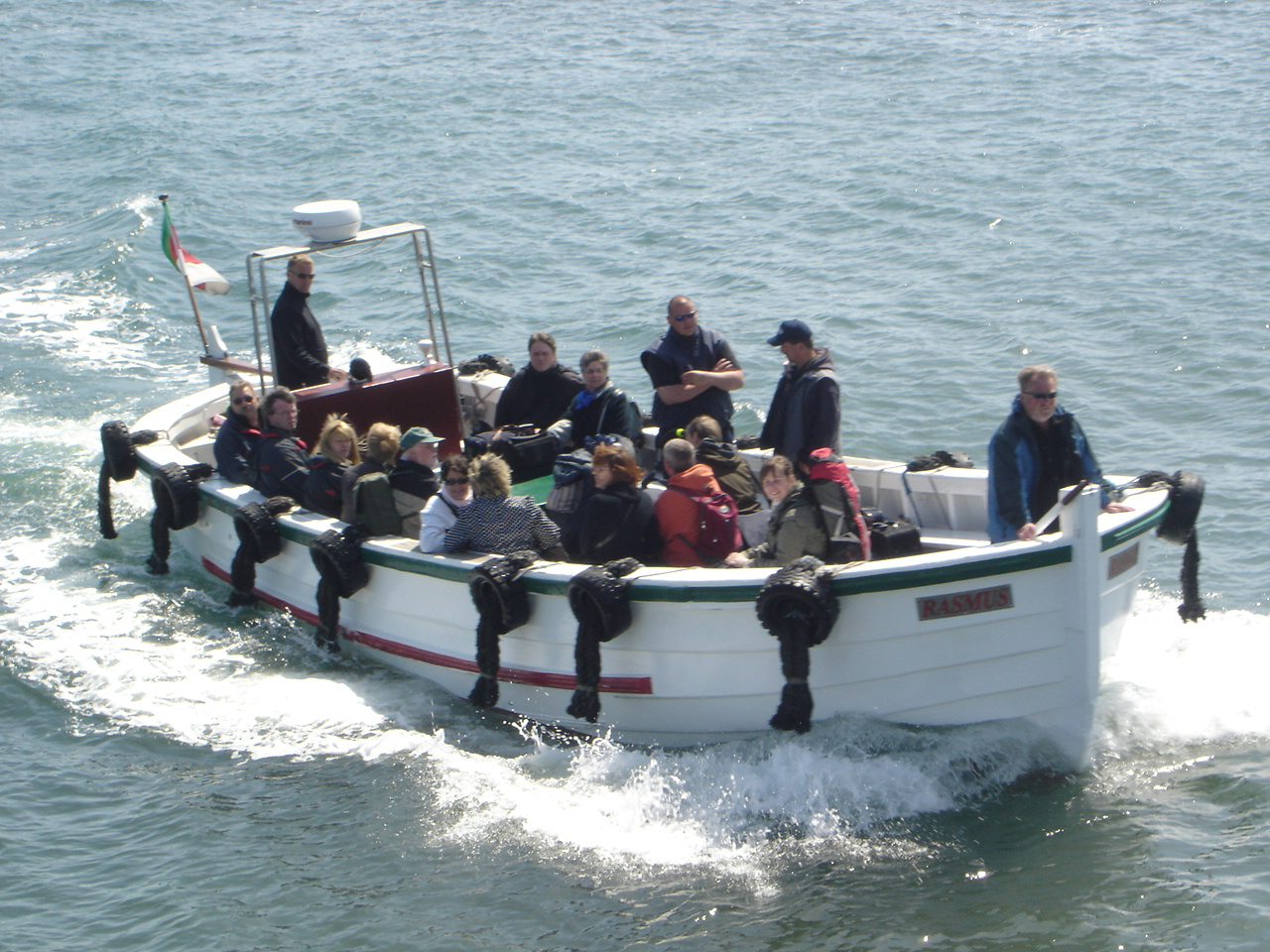 Boerteboat "Rasmus" on Heligoland (North Sea)